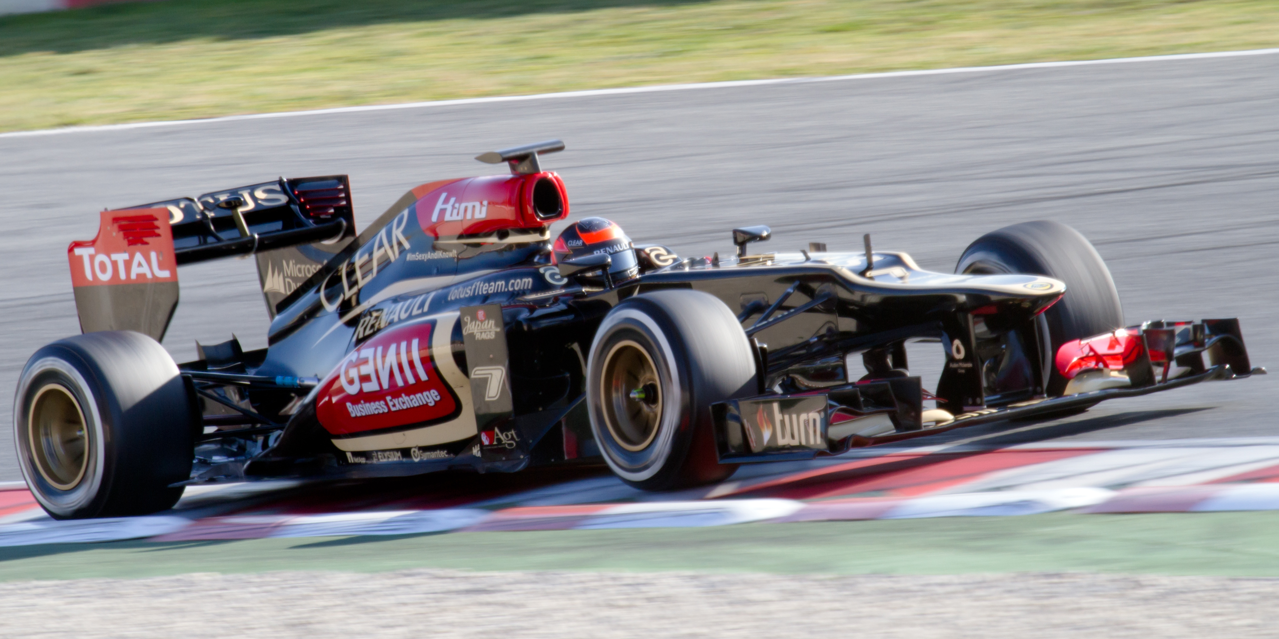 Formula One 2013 Catalonia test (19-22 February): Kimi Räikkönen (Lotus)